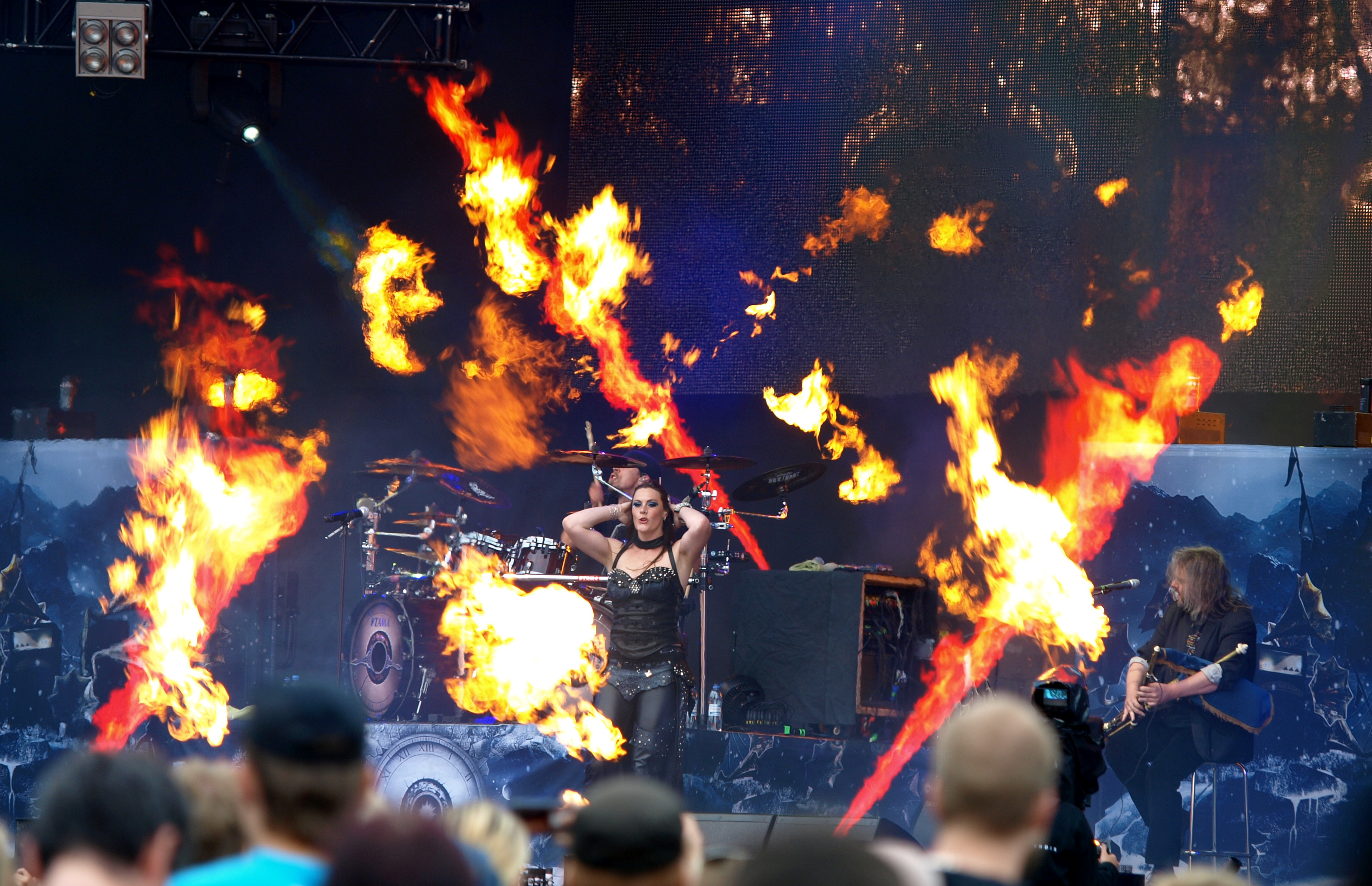 Finnish band Nightwish at Tuska Open Air 2013